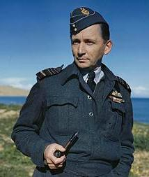 Air Chief Marshal Sir Arthur Tedder on the Italian coast. Later that month he returned to Britain to take up his appointment as Deputy Commander of the Allied Expeditionary Forces then being assembled for the cross-channel invasion.